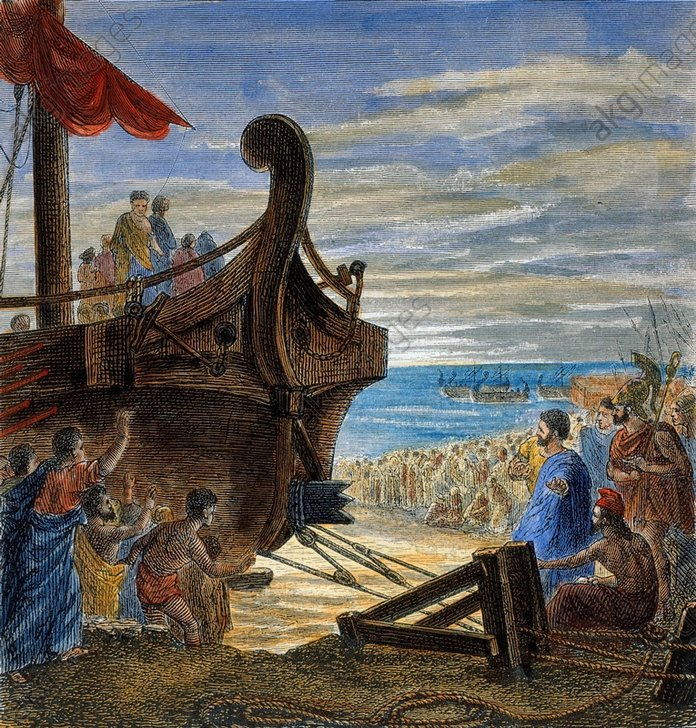 1GR-3-E2 (192104) 'Archimedes wendet den Hebel zur Bewegung eines Schiffes an' Archimedes, griech. Mathematiker und Physiker; um 285 - 212 v.Chr. / 'Archi- medes wendet den Hebel zur Bewegung eines Schiffes an'. (Flaschenzug beim Stapellauf der Syrakosia in Syrakus). Holzstich, unbez., spätere Kolorierung. Aus: Hermann Göll, Die Weisen und Ge- lehrten des Alterthums, 2.Aufl. Leipzig (Otto Spamer) 1876, S.181. Berlin, Slg.Archiv f.Kunst & Geschichte. E: 'Archimedes uses a lever to move a ship' Archimedes, Greek mathematician and physicist; c.285 - 212 BC. - 'Archimedes uses a lever to move a ship'. (Pulley used at the launching of the ship Syrakosia in Syracuse). Woodcut, unsigned, colour added later. From: Hermann Göll, Die Weisen und Ge- lehrten des Alterthums, 2nd ed. Leipzig (Otto Spamer) 1876, p.181. Coll. Archiv f.Kunst & Geschichte.